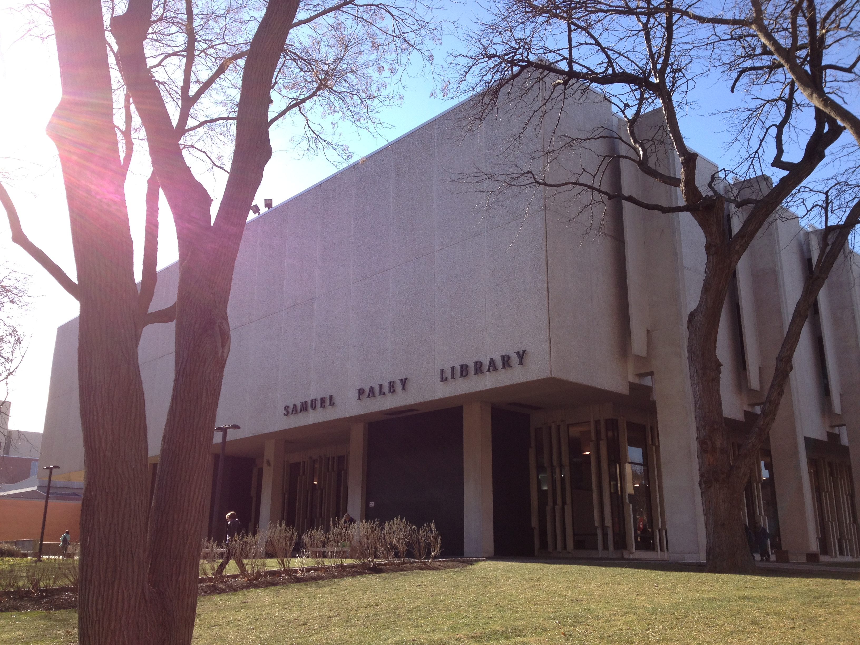 Front of Samuel Paley Library on the main campus of Temple University Libraries in Philadelphia, PA.